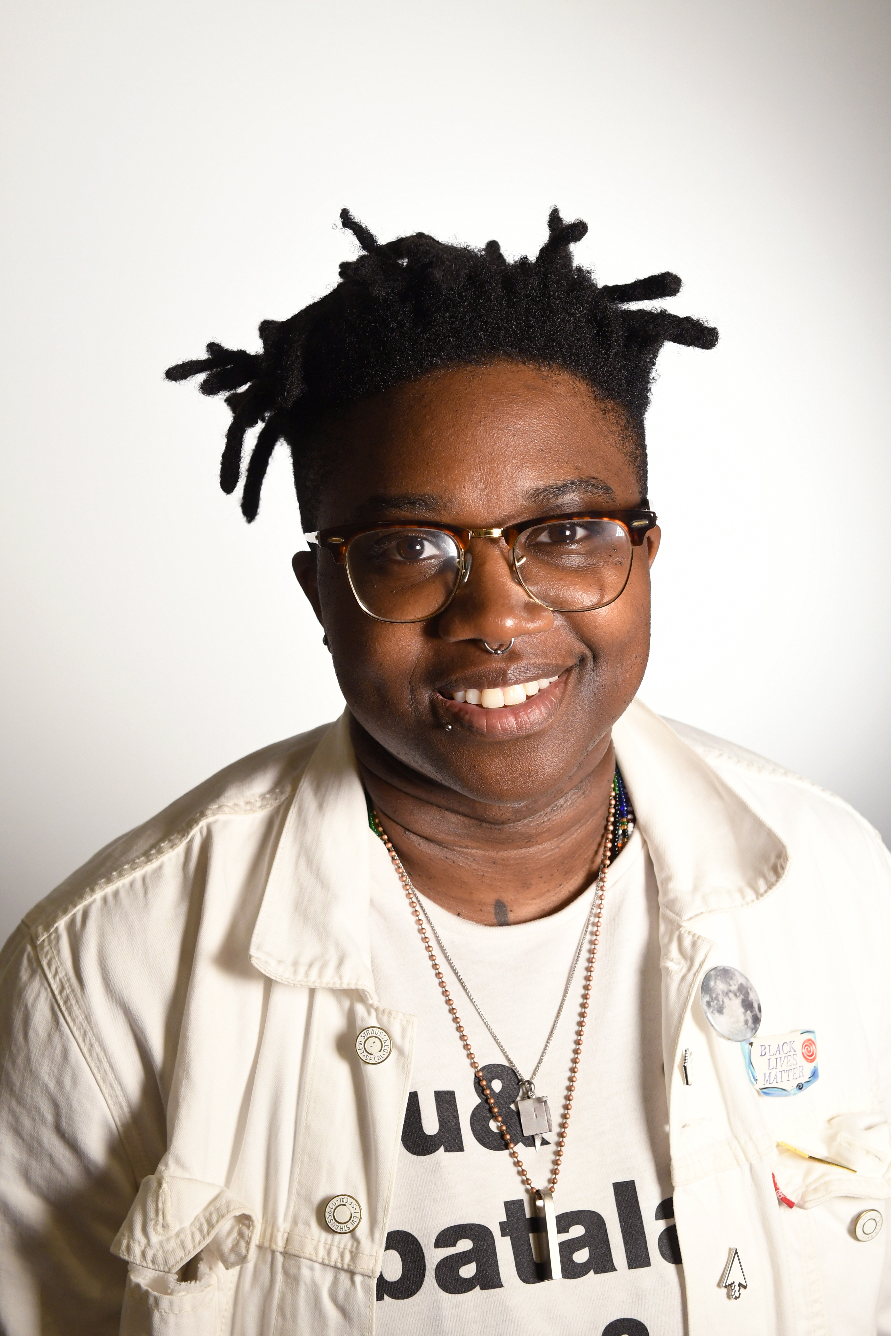 Tiona Nekkia McClodden at Brooklyn Museum during Black Lunch Table's Wikipedia Editathon for We Wanted A Revolution: Black Radical Women 1965-85 with guest photographer Noelle Théard.